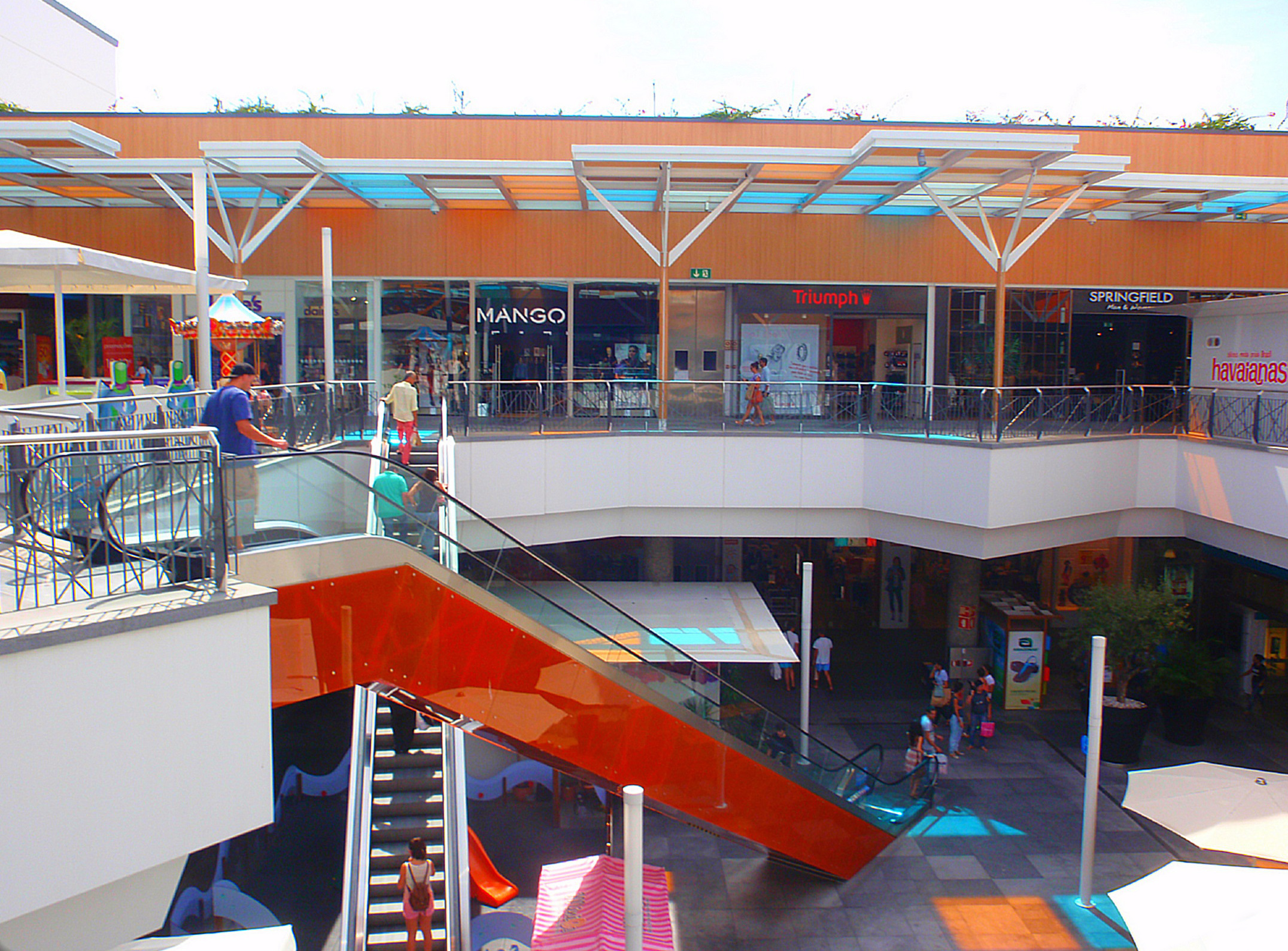 Aqua Shopping centre - Portimao (Portugal)